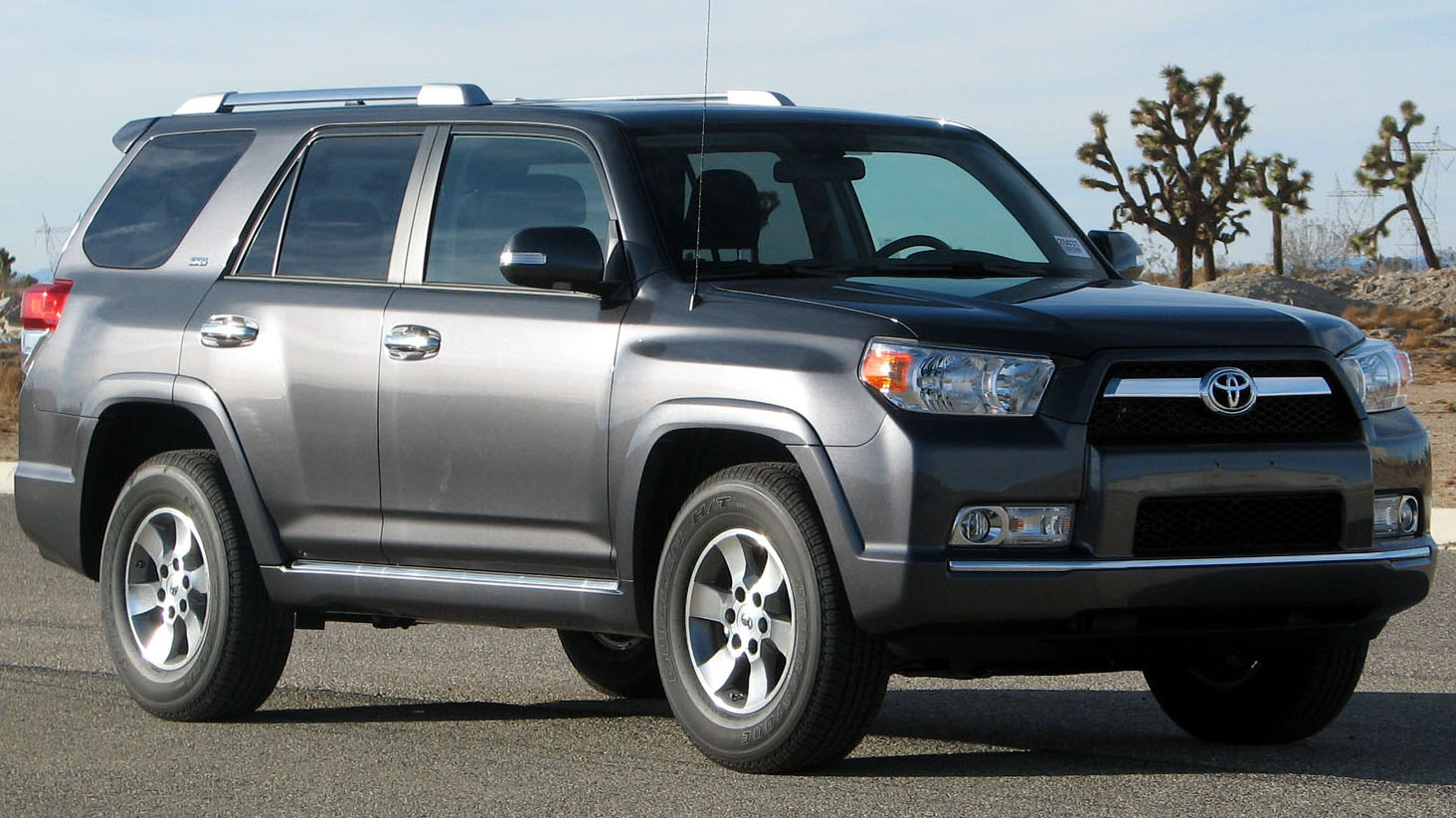 2010 Toyota 4Runner photographed in USA.